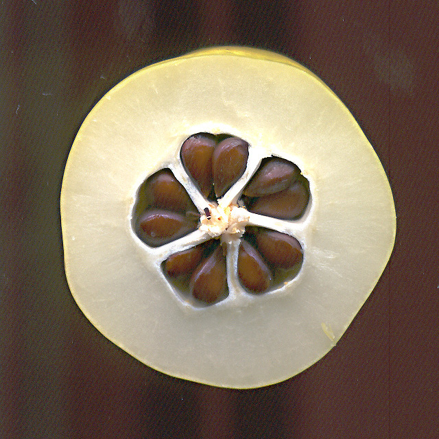 Chaenomeles lagenaria pseudocarp